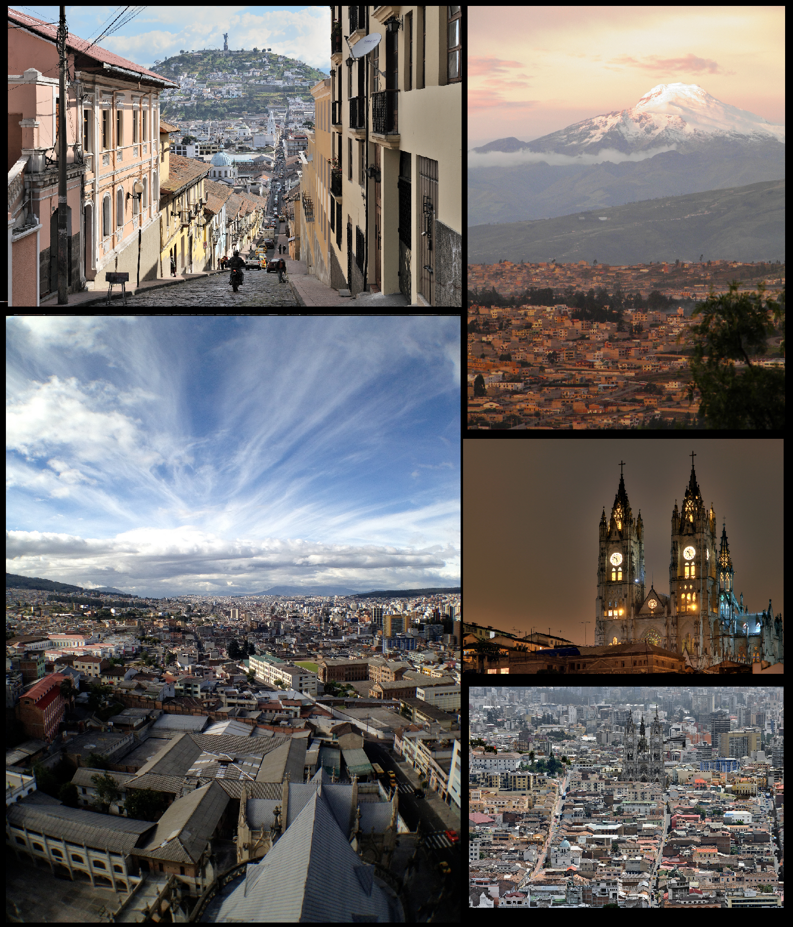 Views of the city San Francisco de Quito capital of the Republic of Ecuador.